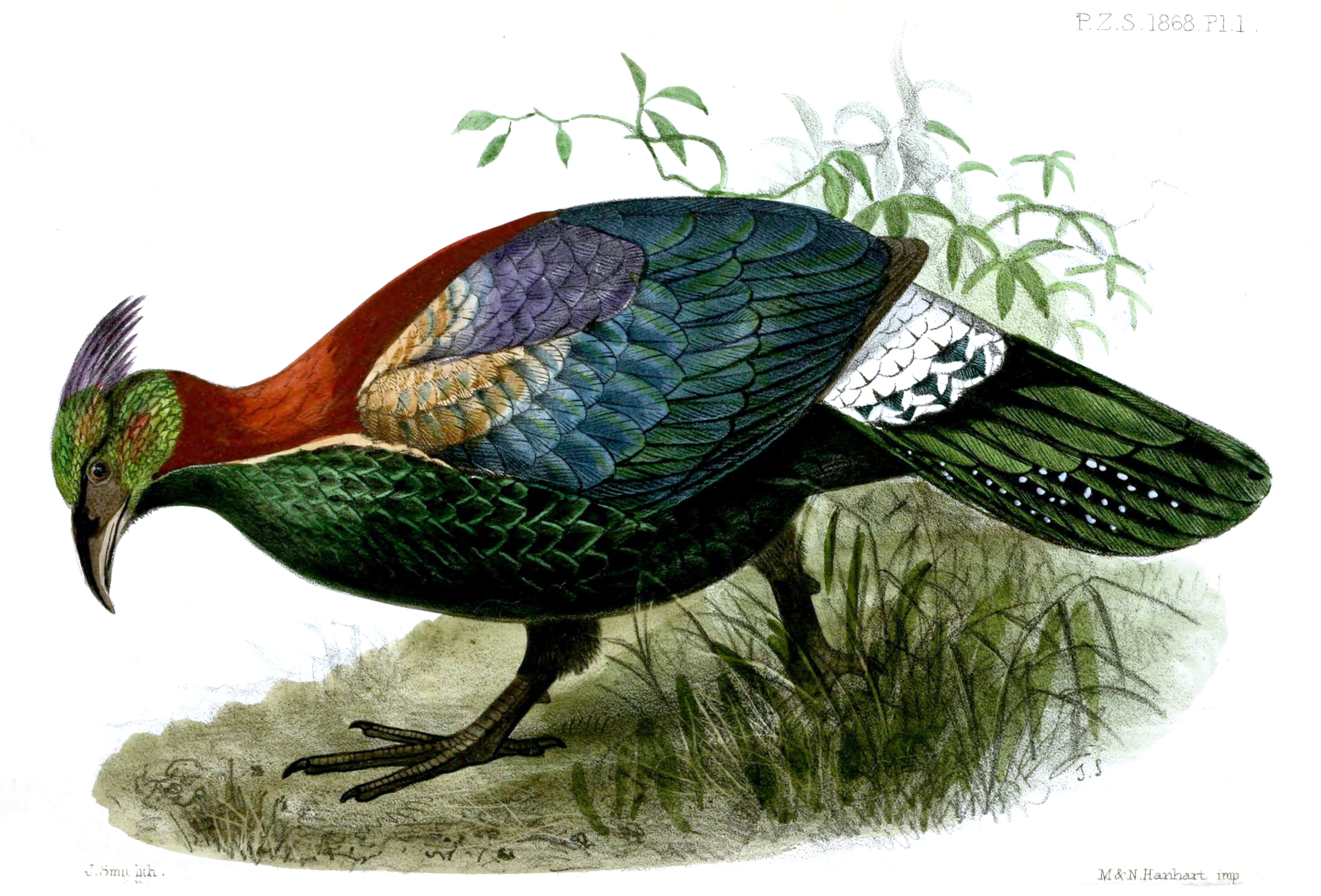 Lophophorus lhuysii